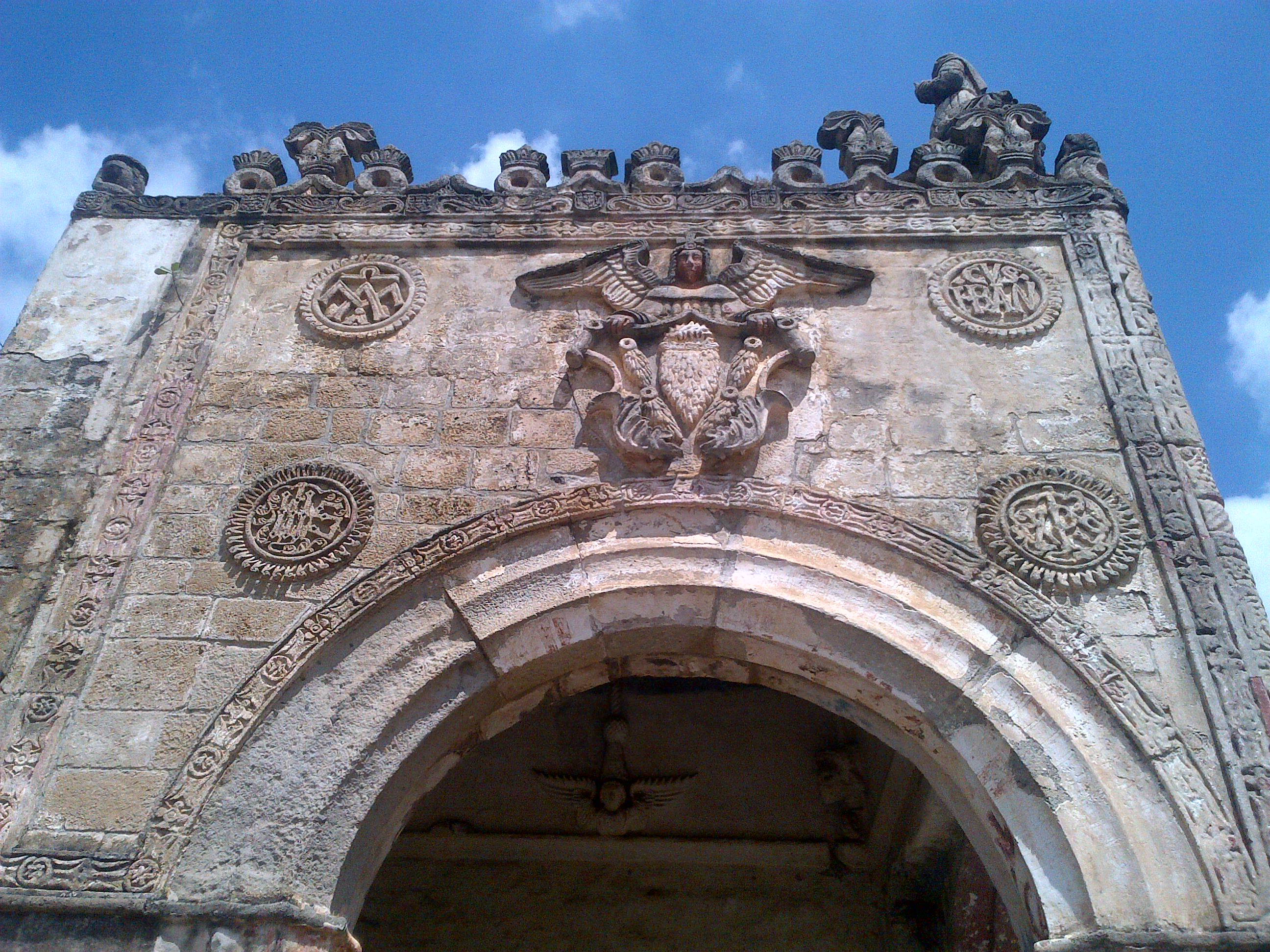 Detalle de la cara Sur de la capilla Posa dedicada a San Francisco en el Ex Convento de San Andres Calpan